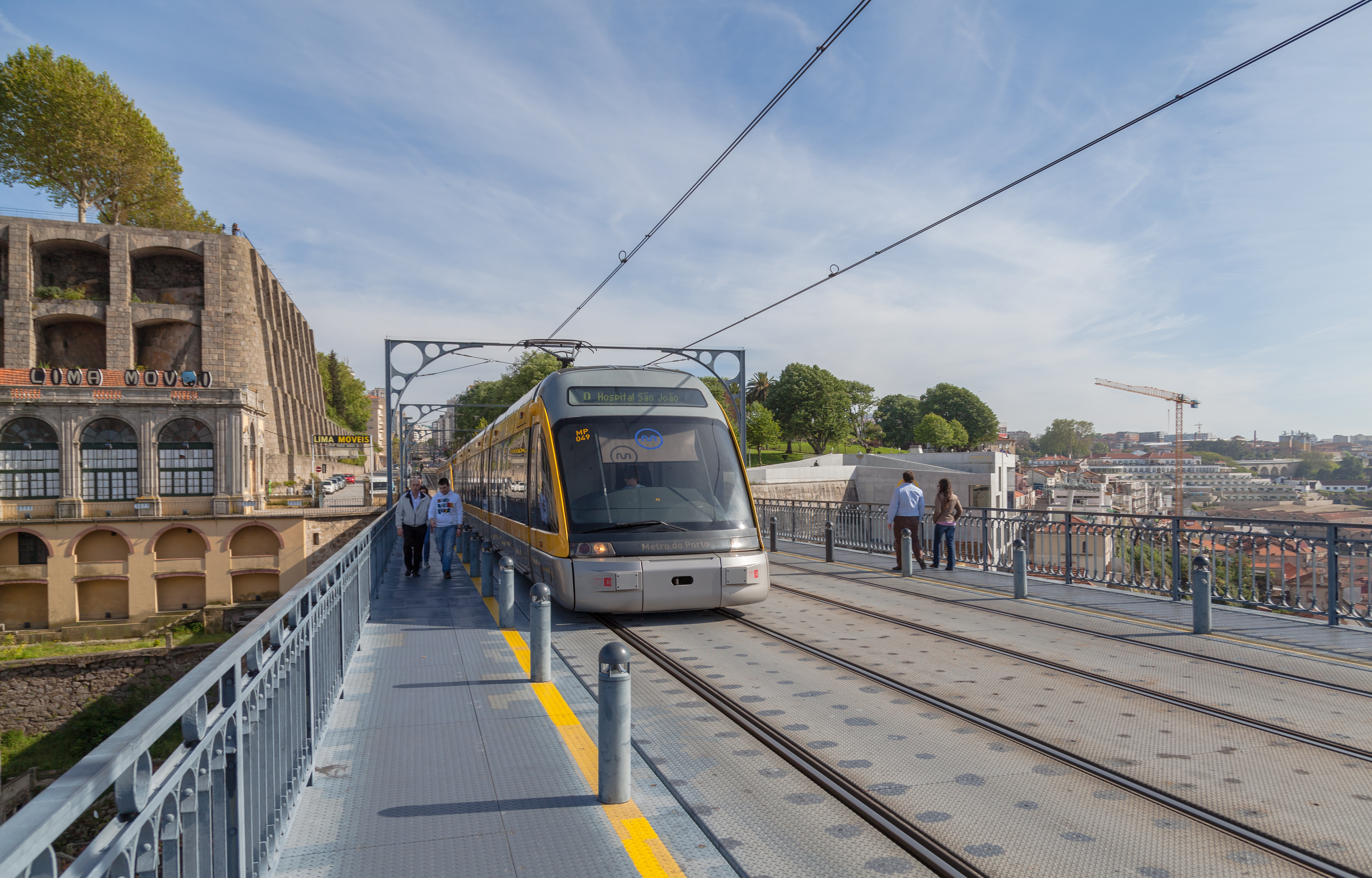 Dom Luis I bridge, Porto, Portugal